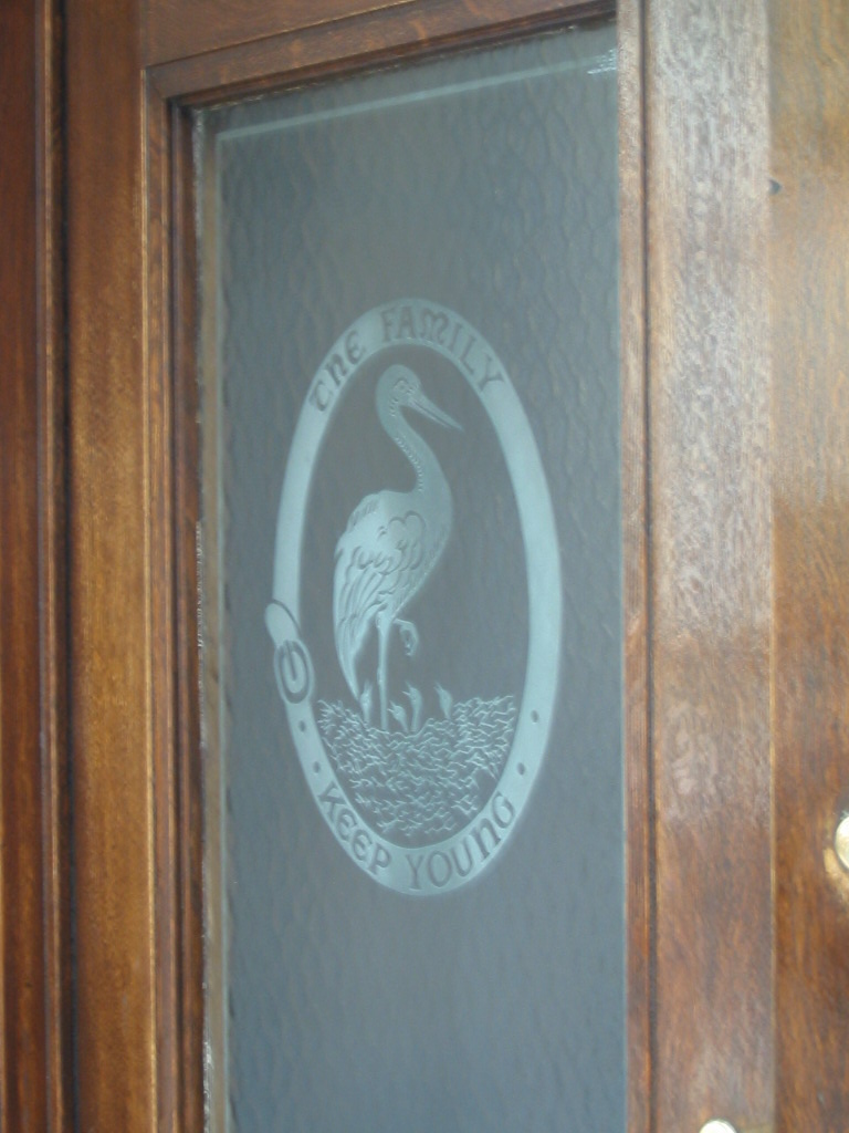 Photograph of the incised glass of the entrance door to 545 Powell, San Francisco, the private club known as The Family.